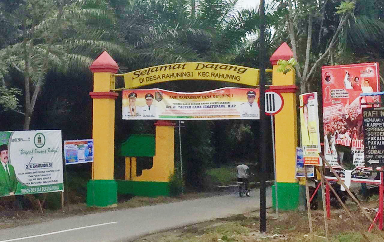 welcome gate to Rahuning I, Rahuning, Asahan